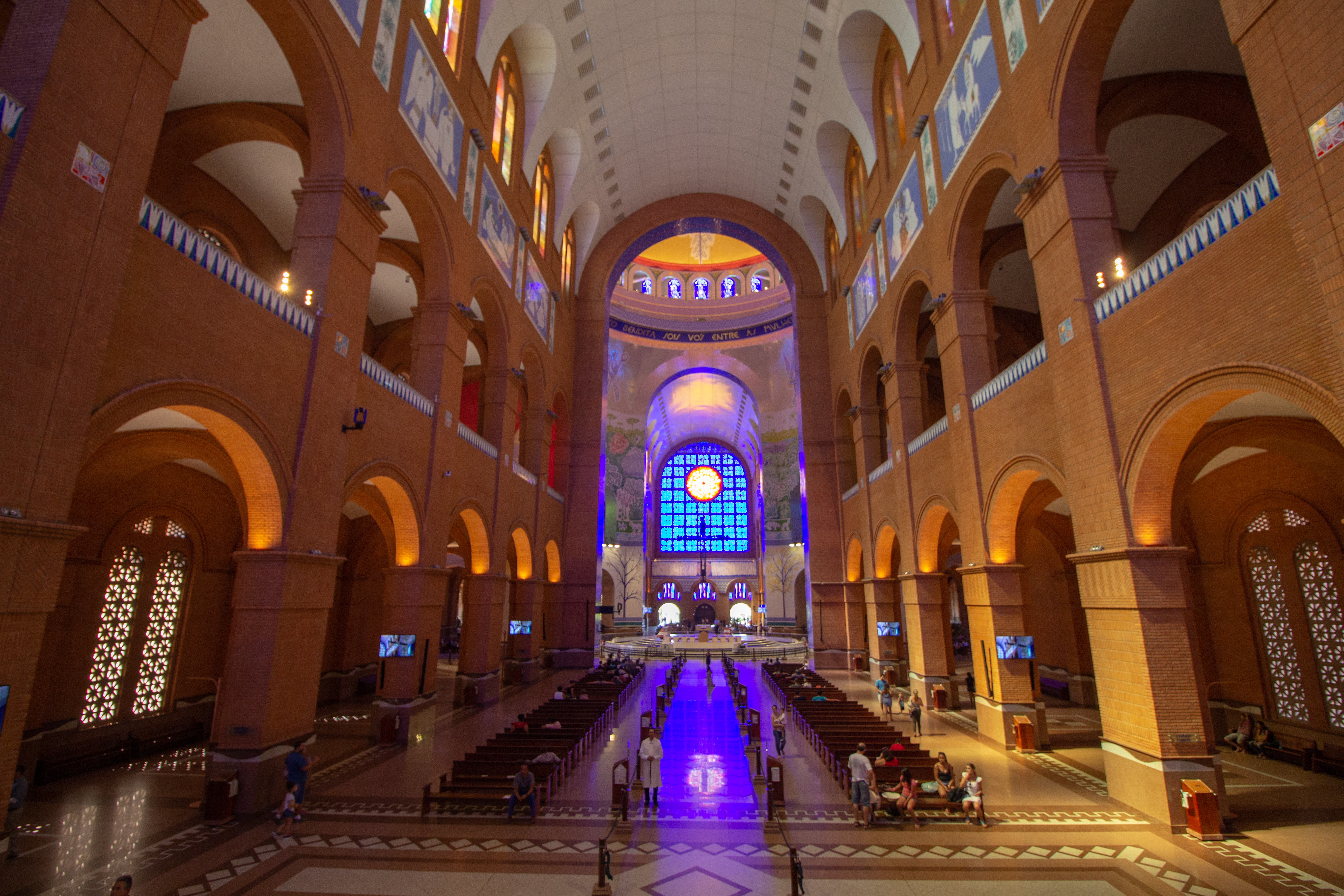 Basilica of the National Shrine of Our Lady of Aparecida, Sao Paulo, Brazil